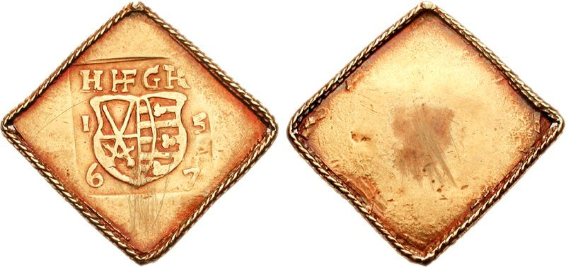 GERMANY, Gotha. AV Ducat (3.81 g). Siege issue. Dated 1567. H HF G K (HF ligate) above, coat-of-arms of Kurfürstentum Sachsen; 1 5/6 7 flanking / Blank. Cf. Brause-Mansfeld pl XI, 1; Koppe 326 (Grimmenstein); Maillet Supp. 2 (demi ducat). VF, toned, a few scratches under tone. Still in original laurel wreath mounting without suspension loop. Extremely rare.